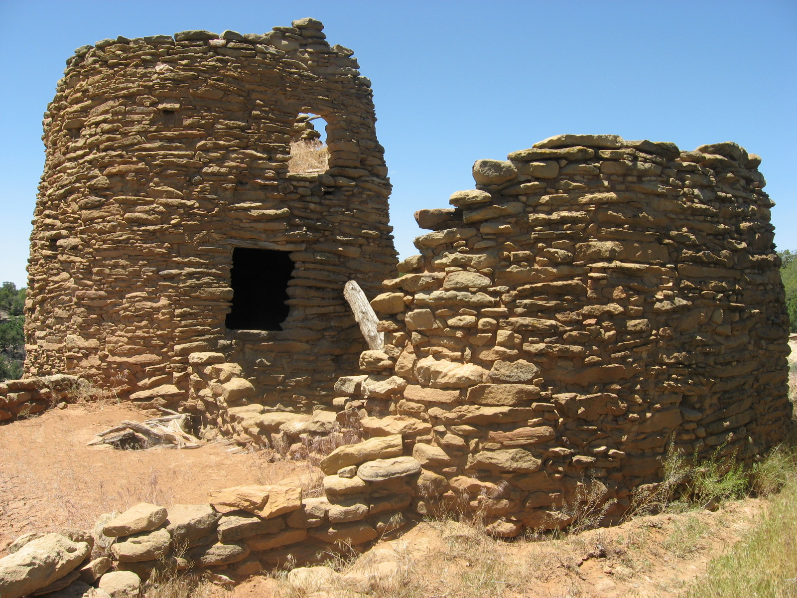 Frances Canyon Pueblito ruins, New Mexico. An 18th century fort believed to have been built by the Navajo people. Photo by T. Mietty, June, 2007.